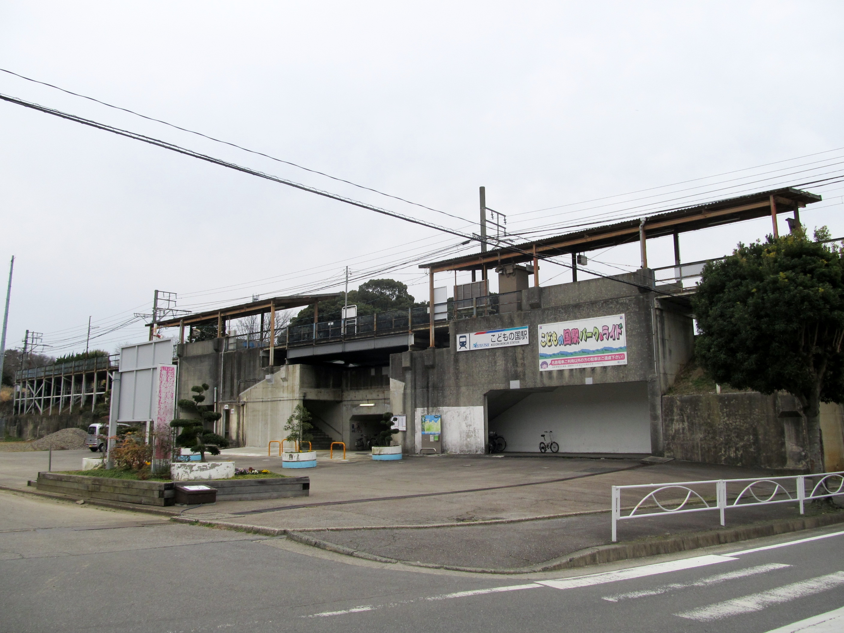 Nagoya Railroad Gamagōri Line Kodomonokuni Station Plaza